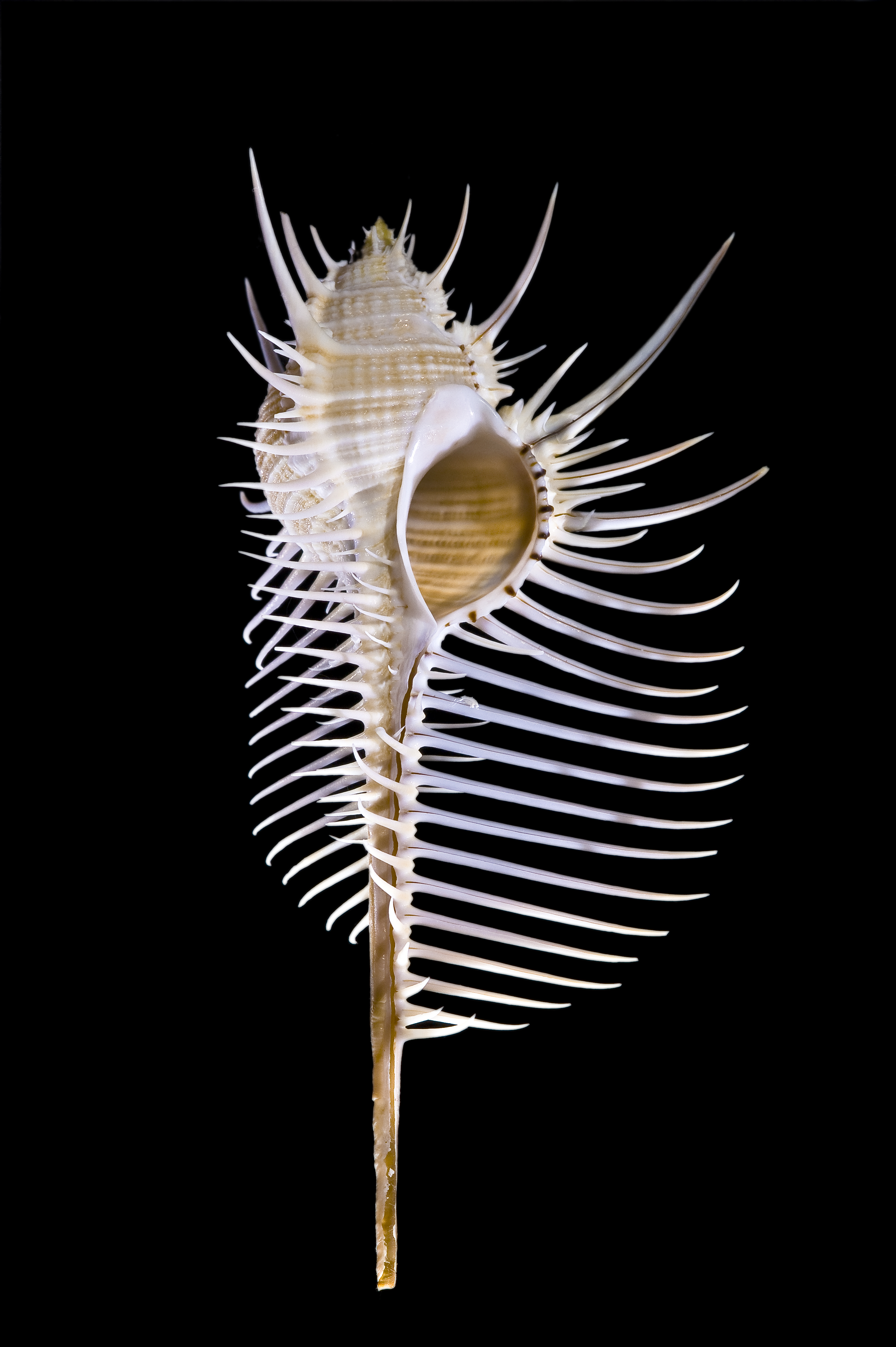 An apertural view of the shell of Murex pecten. The height of the shell is 15 cm.